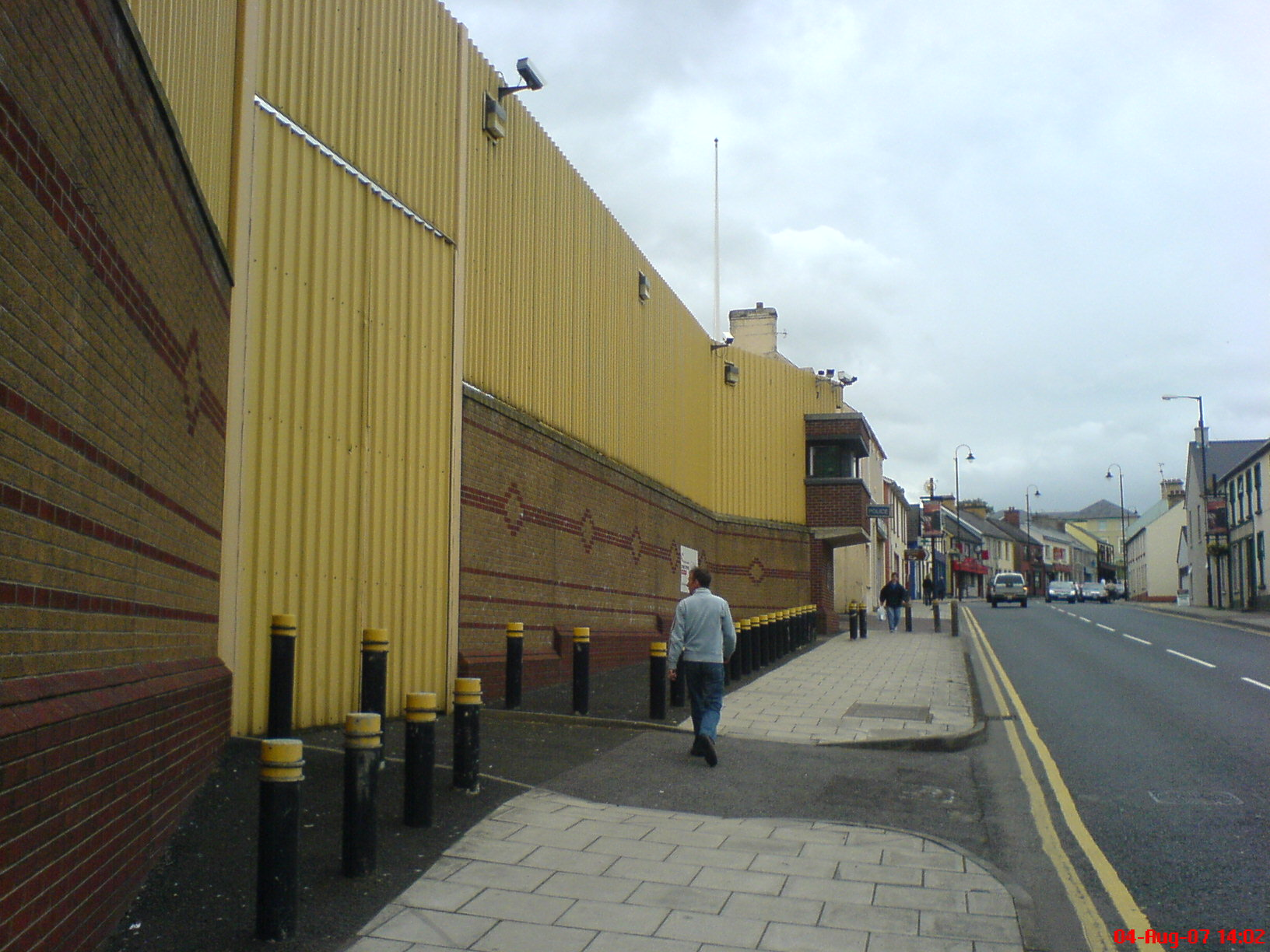 A picture I took on the 4th of August 2007 in Dungiven, County Londonderry of the RUC/PSNI barracks.